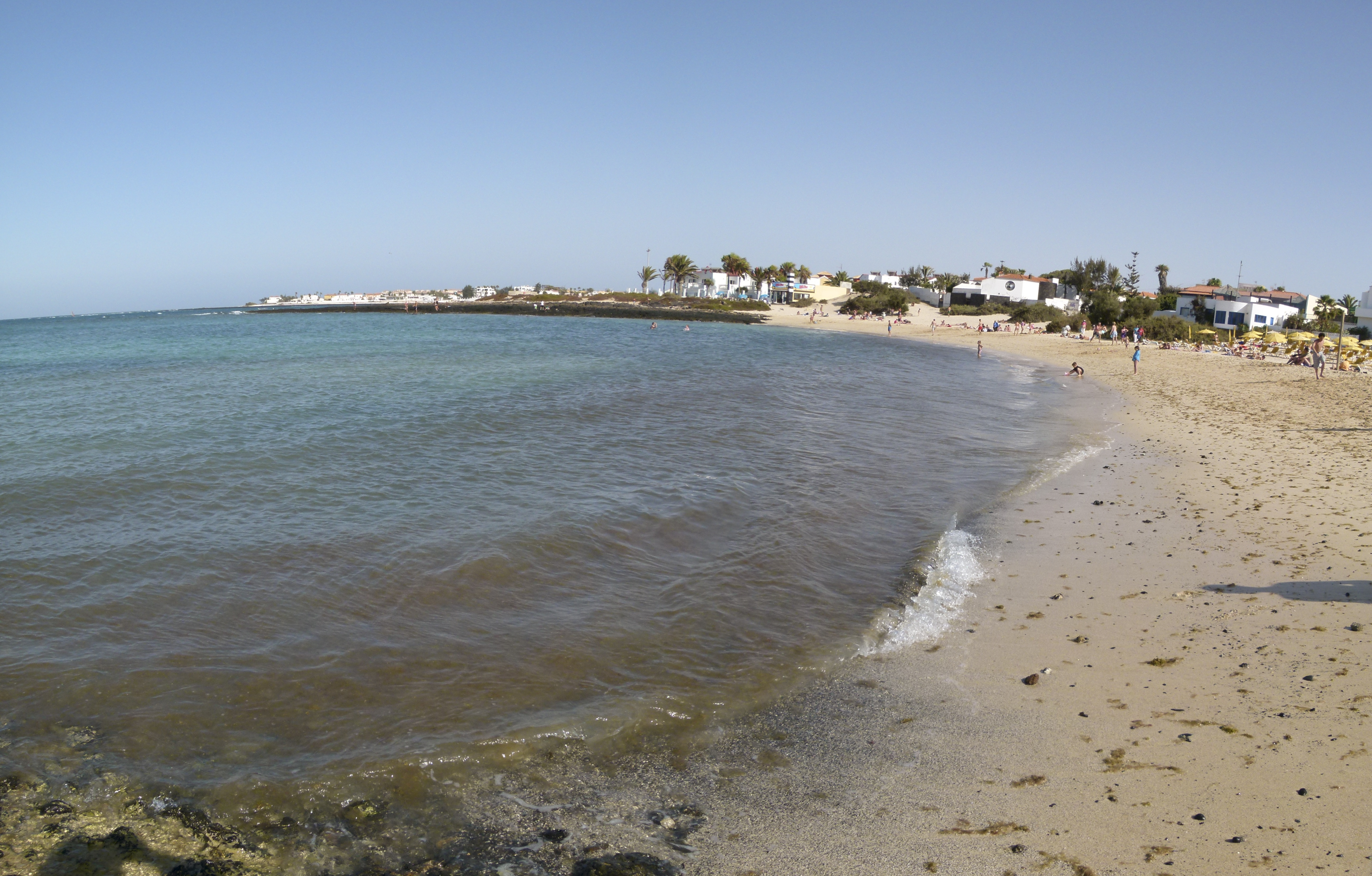 Corralejo beach, Fuerteventura, Canary Islands, Spain